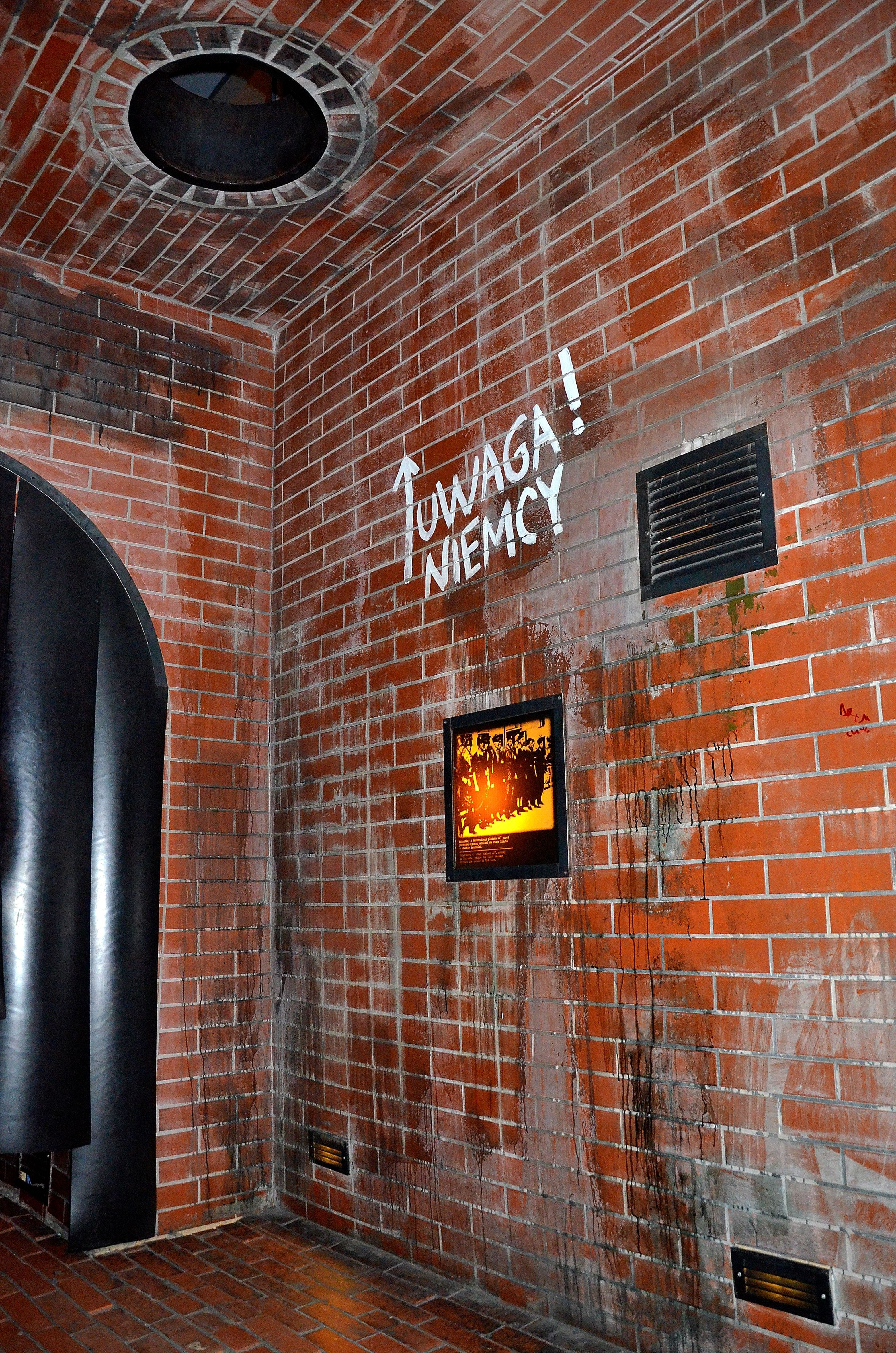 Replica of a warsaw sewer on the mezzanine at the Warsaw Uprising Museum